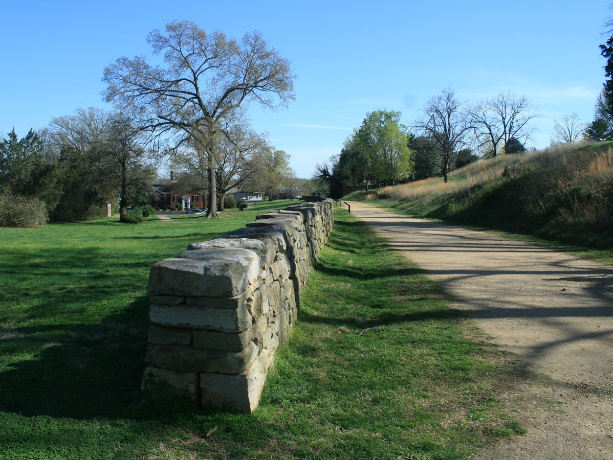 Stonewall at Mary's hights. (Fredericksburg, VA)